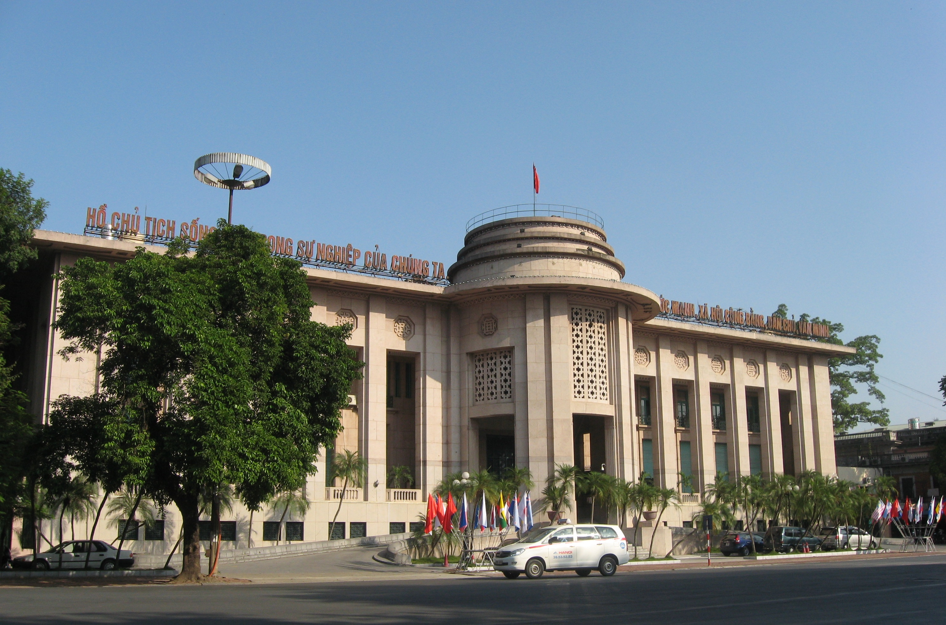 State Bank of Vietnam